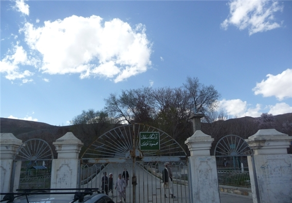 Mahmud of Ghazni Tomb in Ghazni, Afghanistan